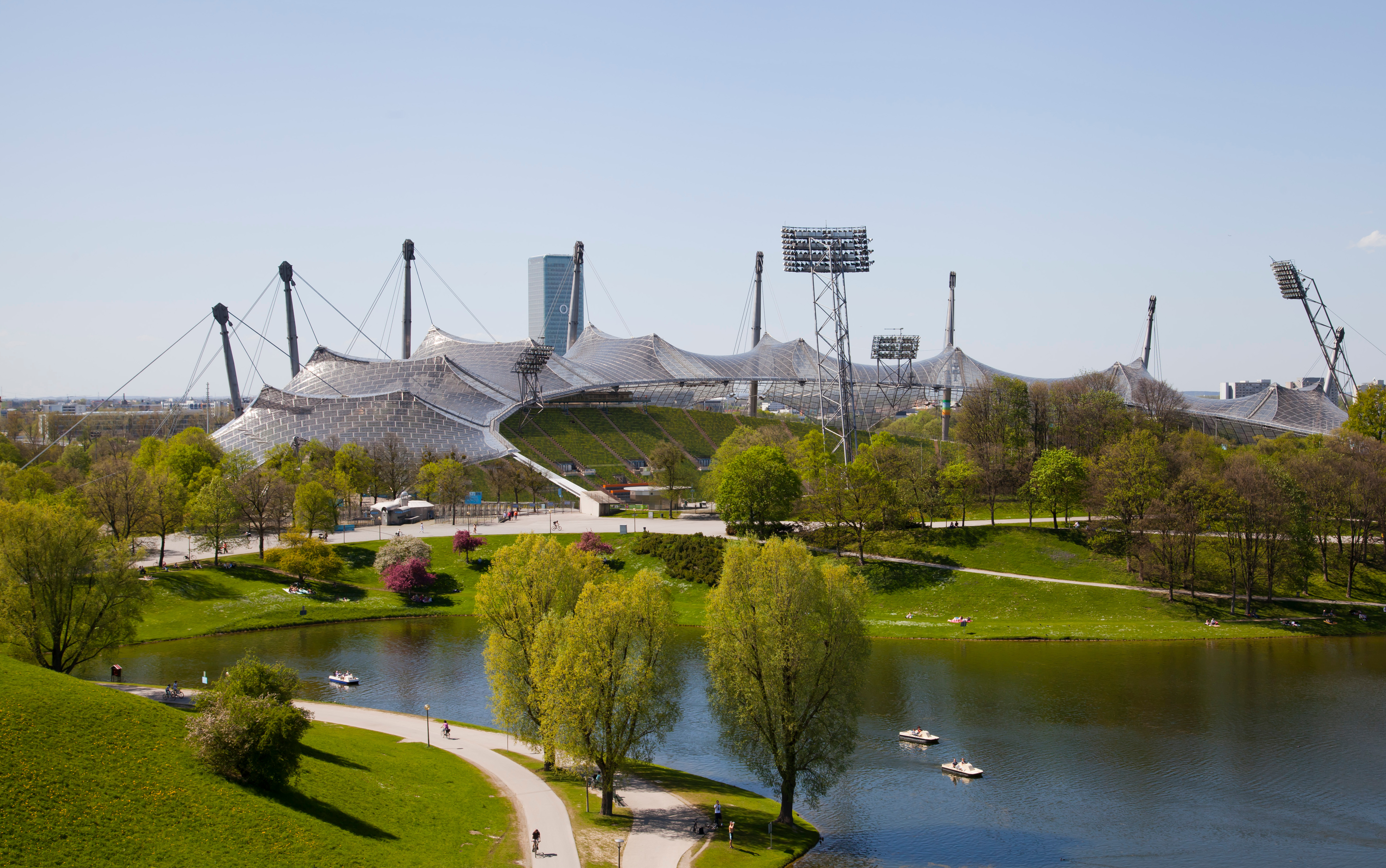 Olympiastadion, Munich, Germany